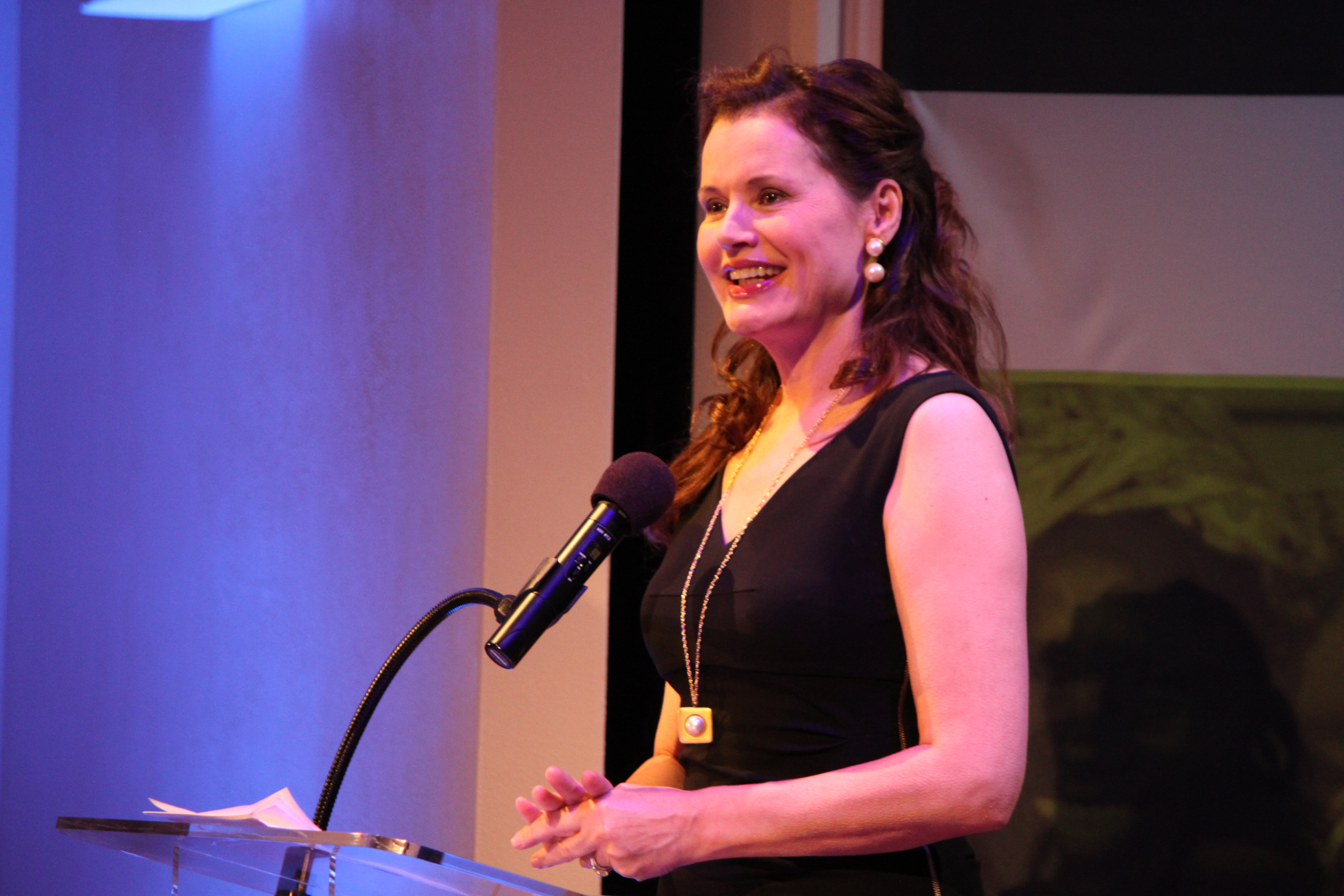 Actor Geena Davis at the MDG Countdown event in New York today, 24 September. Geena spoke engagingly about the negative messages sent to children around the representation of girls and women in film and television. She said we need a huge culture shift to address it. Picture: Marisol Grandon/Department for International Development.